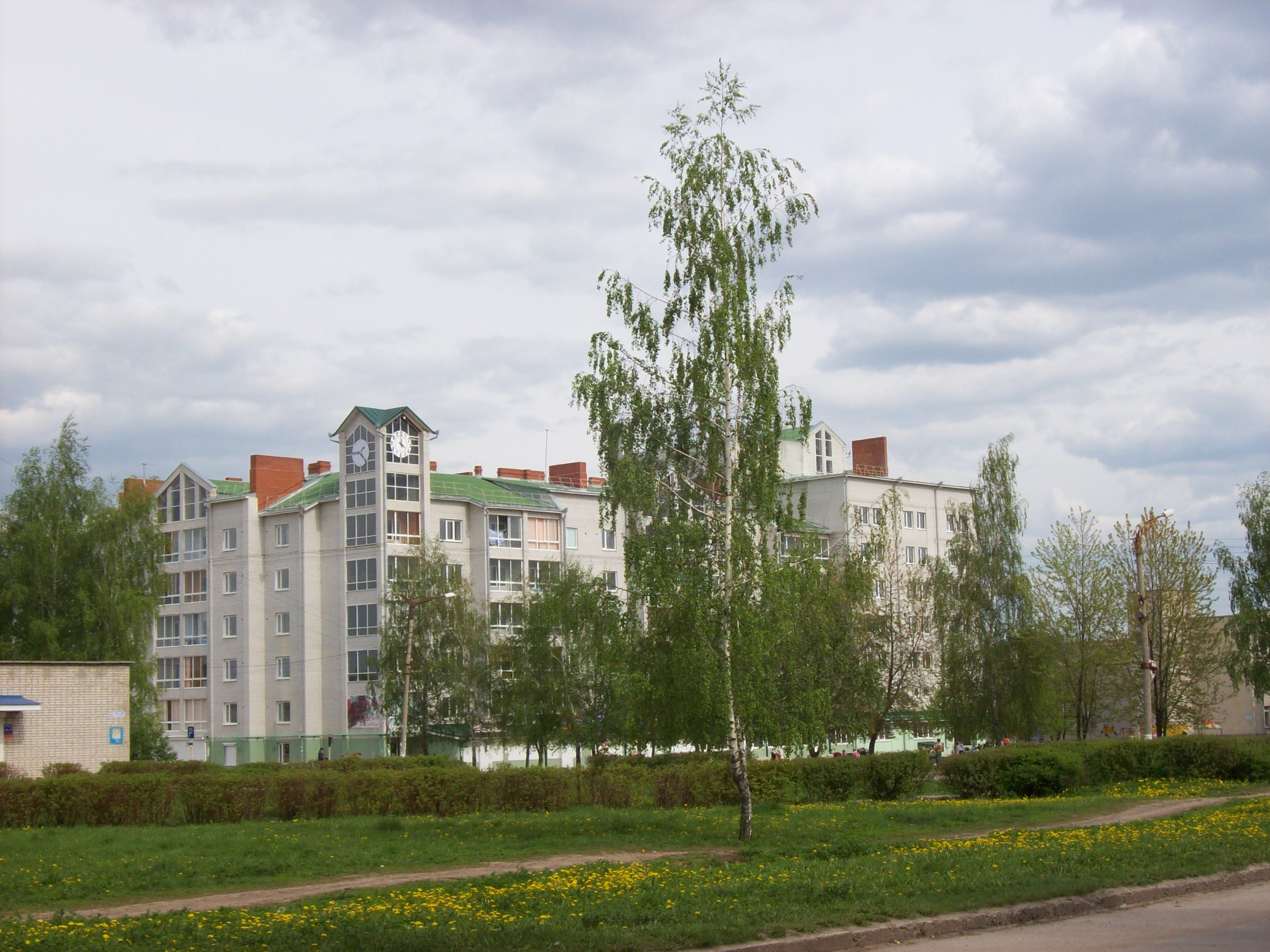 town Semiluki, Voronezh region. "House of the clock."